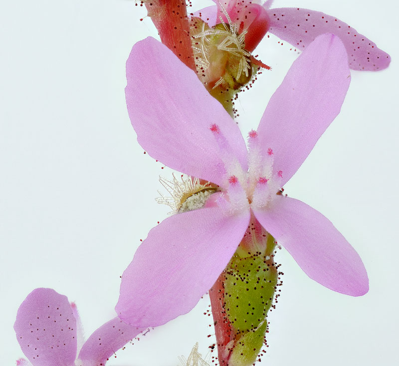 A macro photograph of the flower of Stylidium graminifolium, also known as the Grass Triggerplant, an Australian native wildflower. The digestive trichomes are clearly visible. Redland Bay, Queensland, Australia